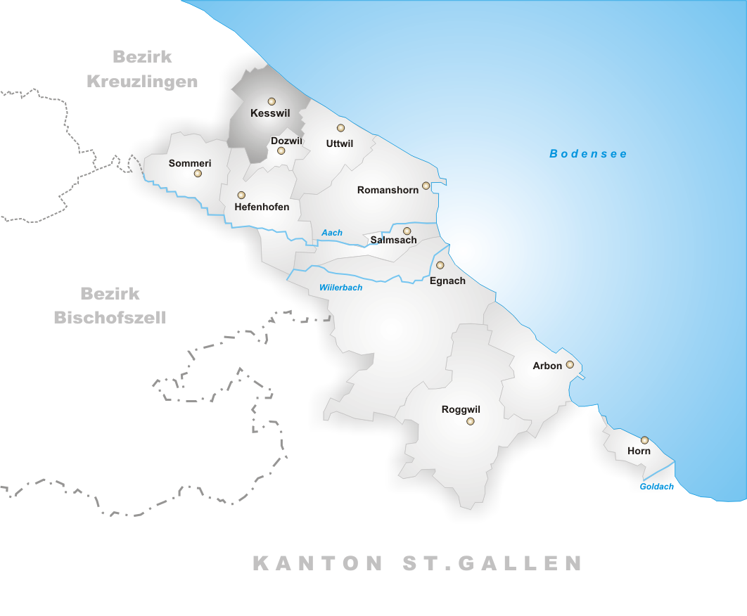 Municipality Kesswil